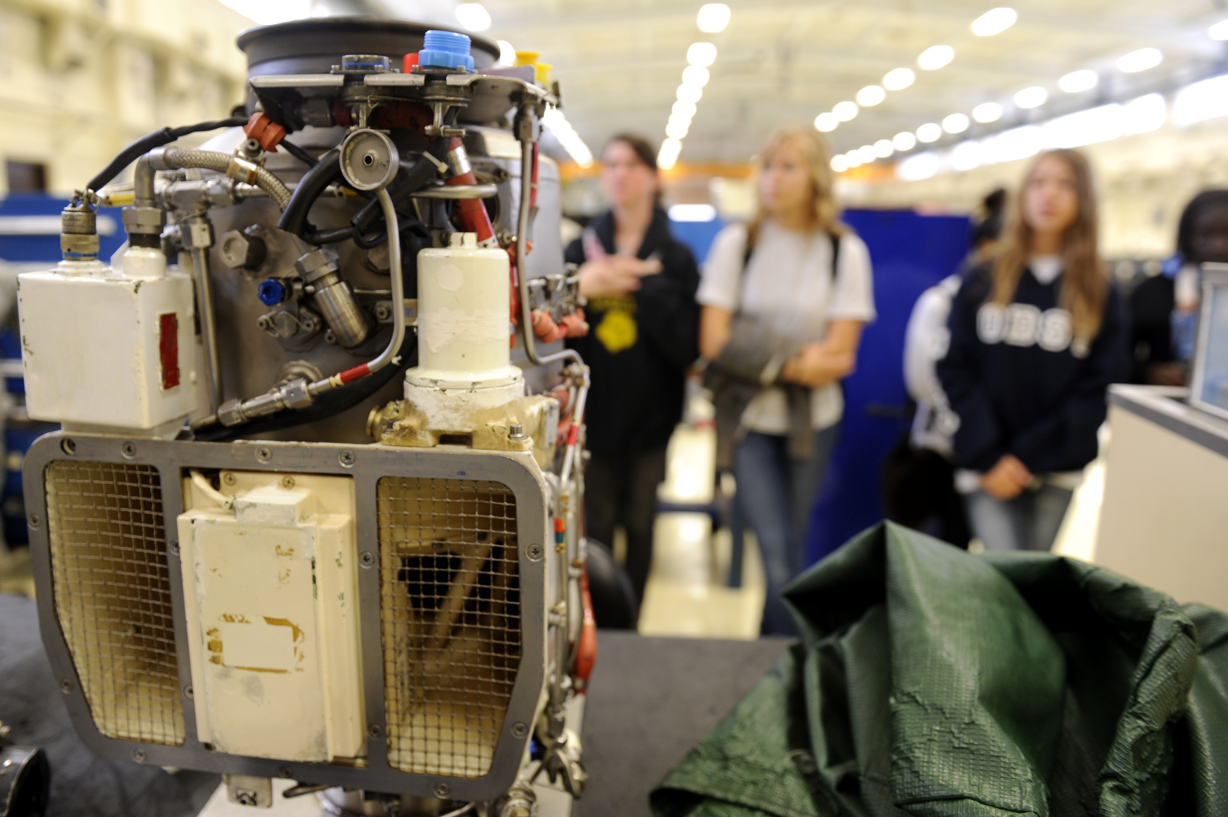 Kadena High School Air Force Junior Reserve Officer Training Course students look at a jet fuel starter for an F-15 Eagle engine start system during a tour of the 18th Component Maintenance Squadron Propulsion Flight on Kadena Air Base, Japan, Nov. 14, 2013. During the tour of the 18th CMS propulsion shop, Kadena HS JROTC students, who aspire to be future engineers, were taught about different components and functions of F-15 Eagle and A-10 Thunderbolt II aircraft engines. (U.S. Air Force photo by Senior Airman Maeson L. Elleman)